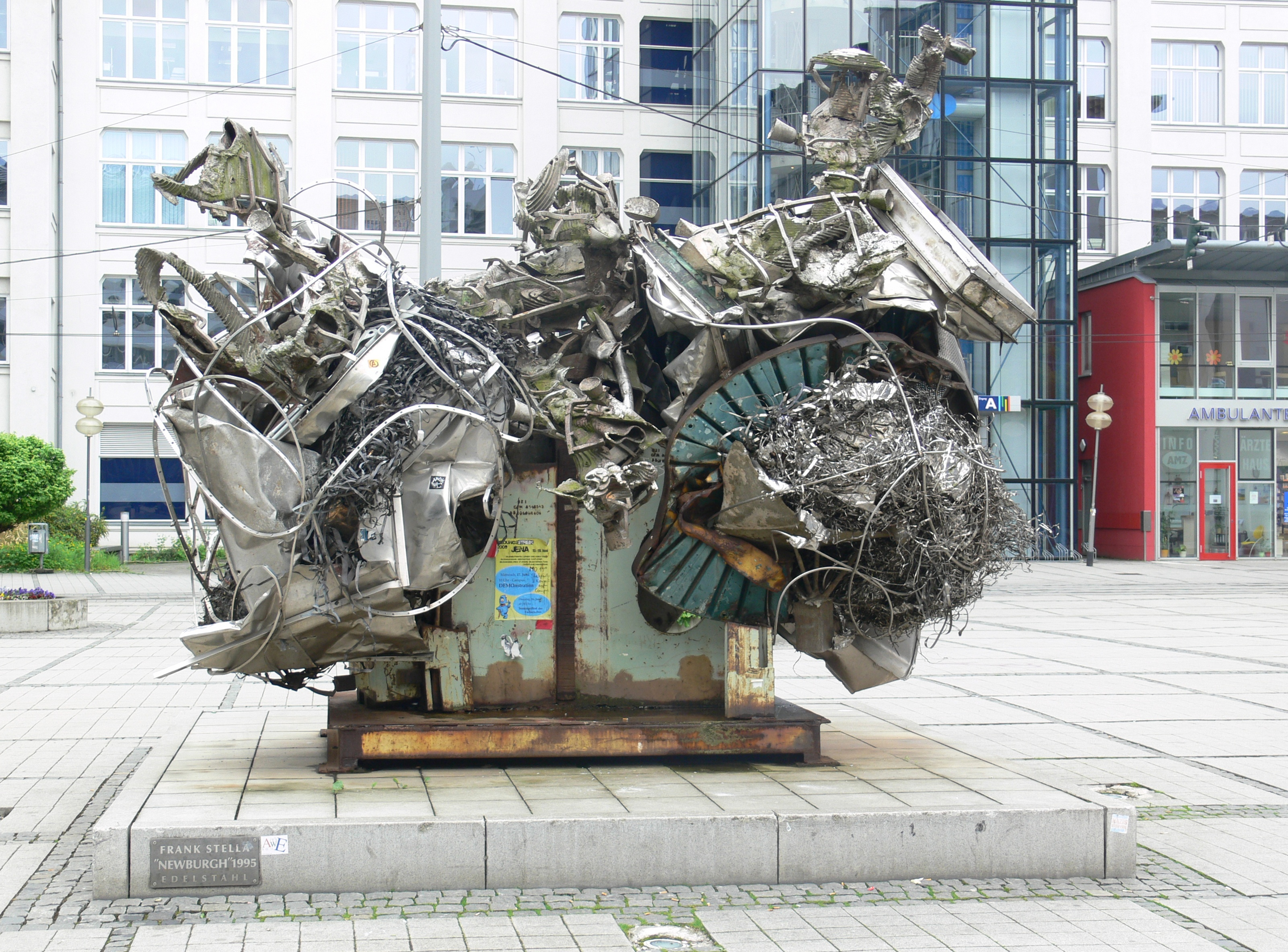 Sculpture Newburgh, 1995, premium steel, by Frank Stella on Ernst-Abbe-Platz in Jena, Thuringia, Germany.